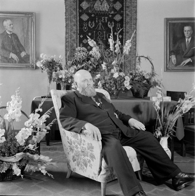 The author Frans Emil Sillanpää on his 60th birthday September 16, 1948 among congratulation flowers in Otava's house.